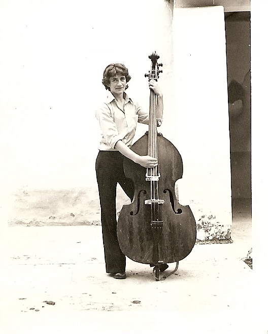 Musical instruments (Double bass) Begeš